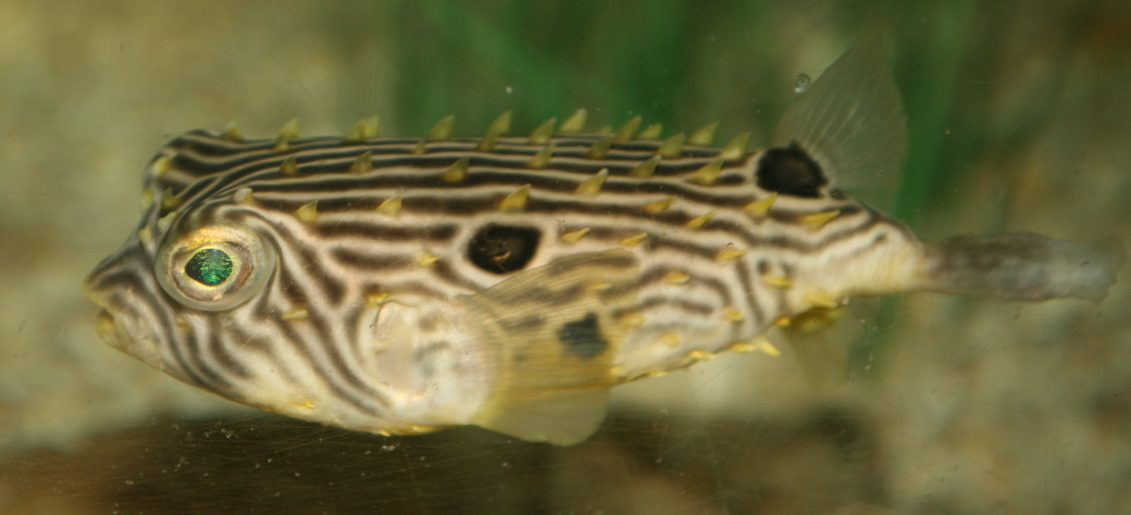 Cropped image of taxon in file name